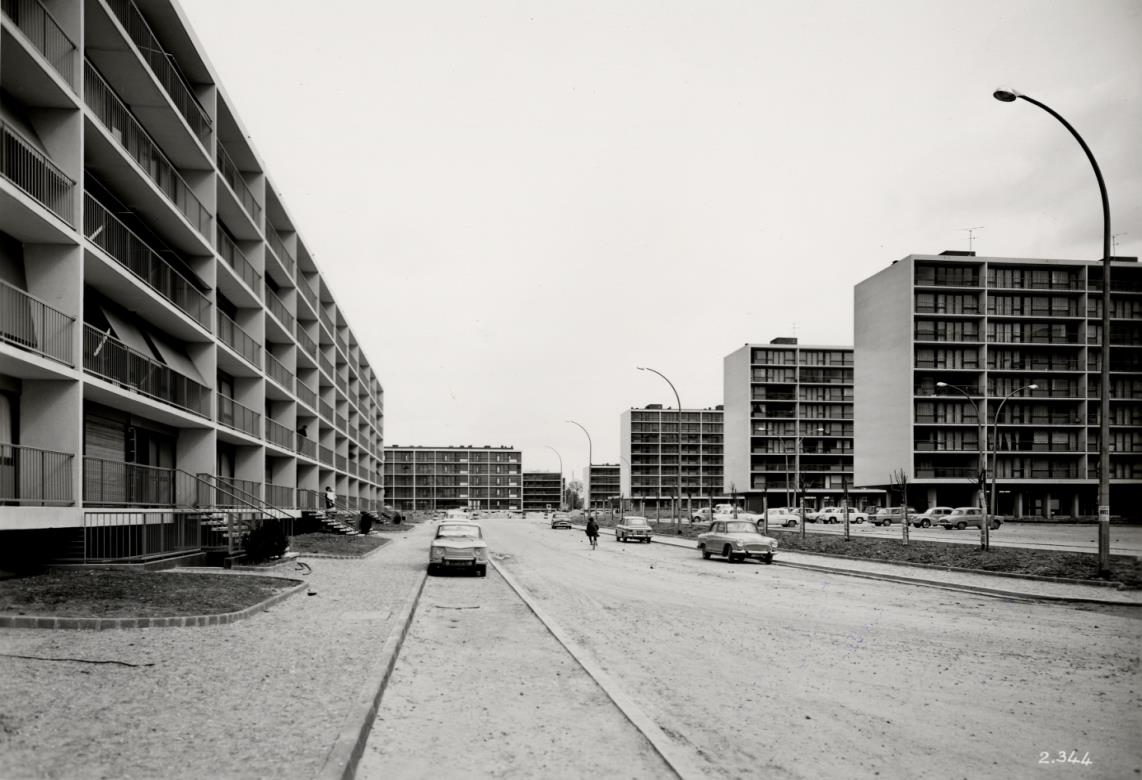 Vélizy-Villacoublay, Grands Ensembles immobiliers du Mail, années 60.